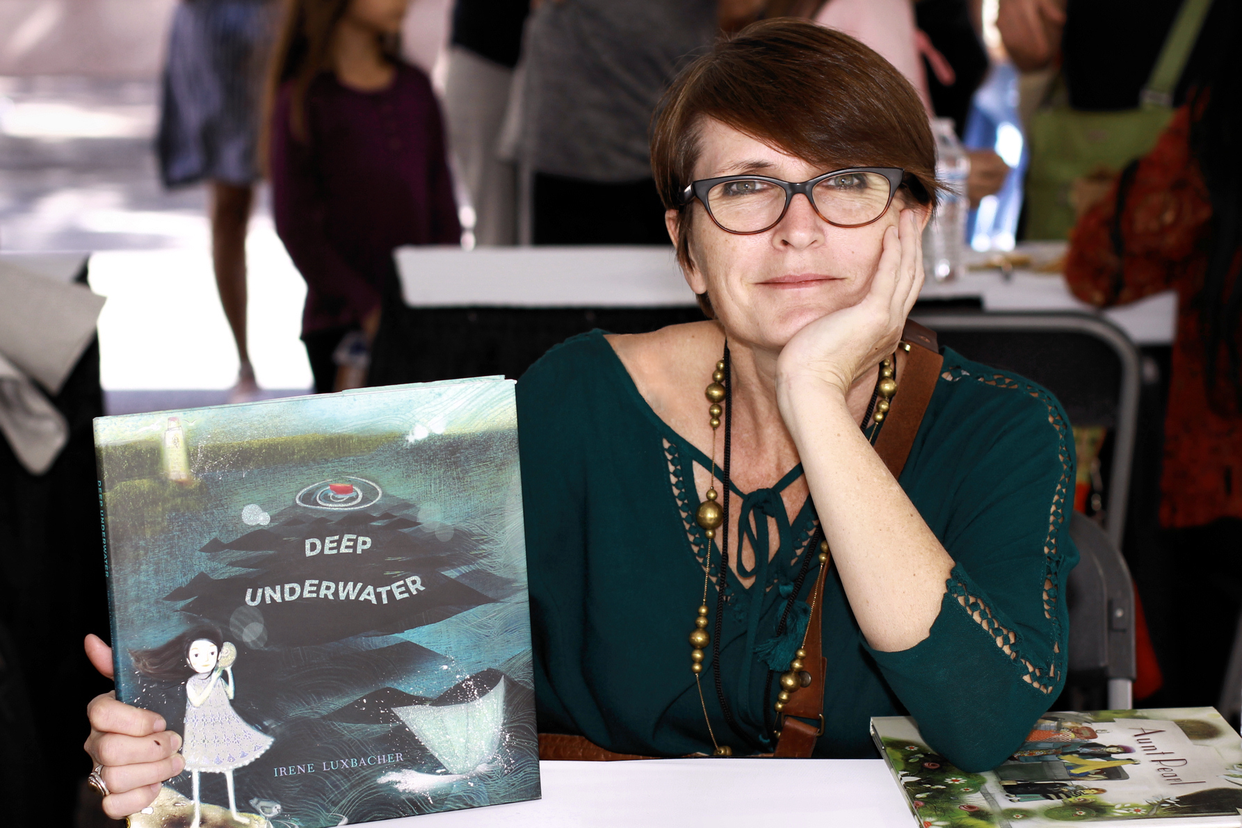 Author and illustrator Irene Luxbacher at the 2019 Texas Book Festival in Austin, Texas, United States.